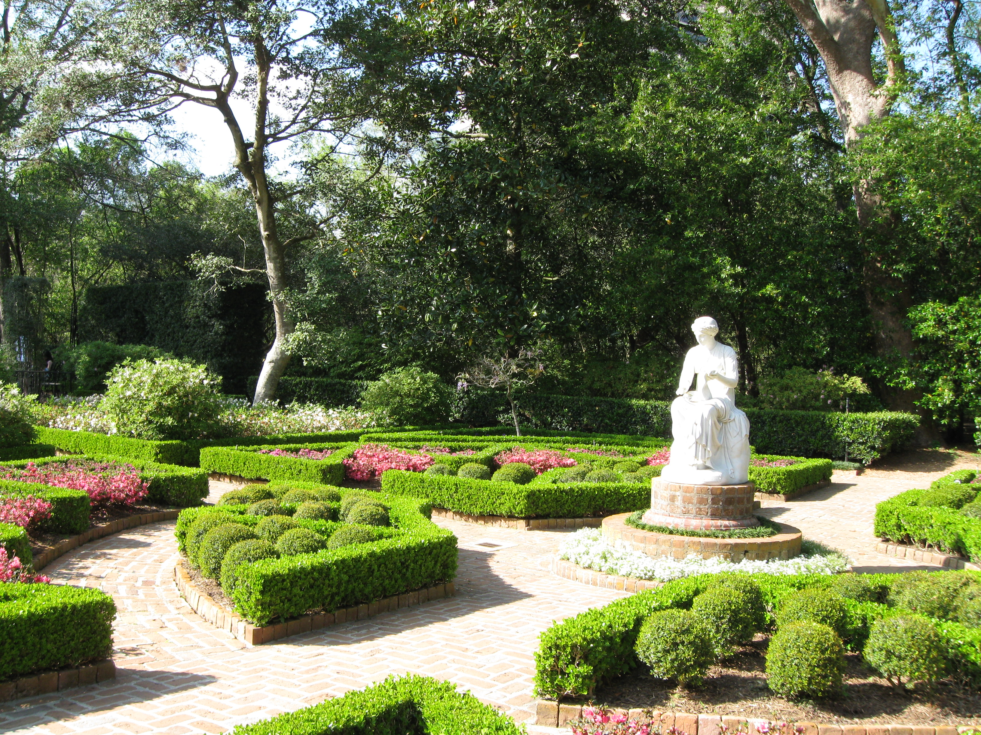 Garden at Bayou Bend estate in Houston, Texas.